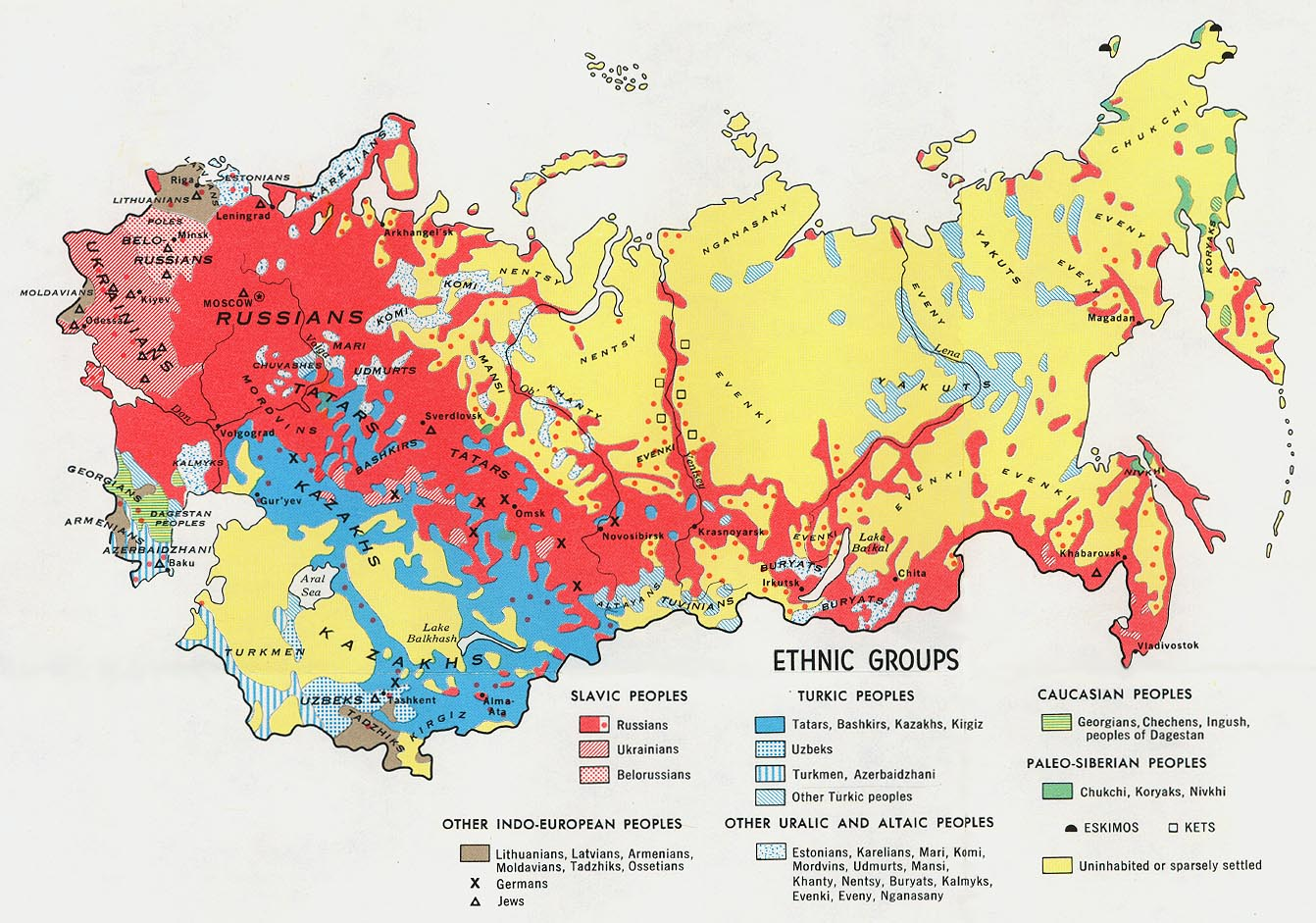 A map of all the ethnic groups in the USSR